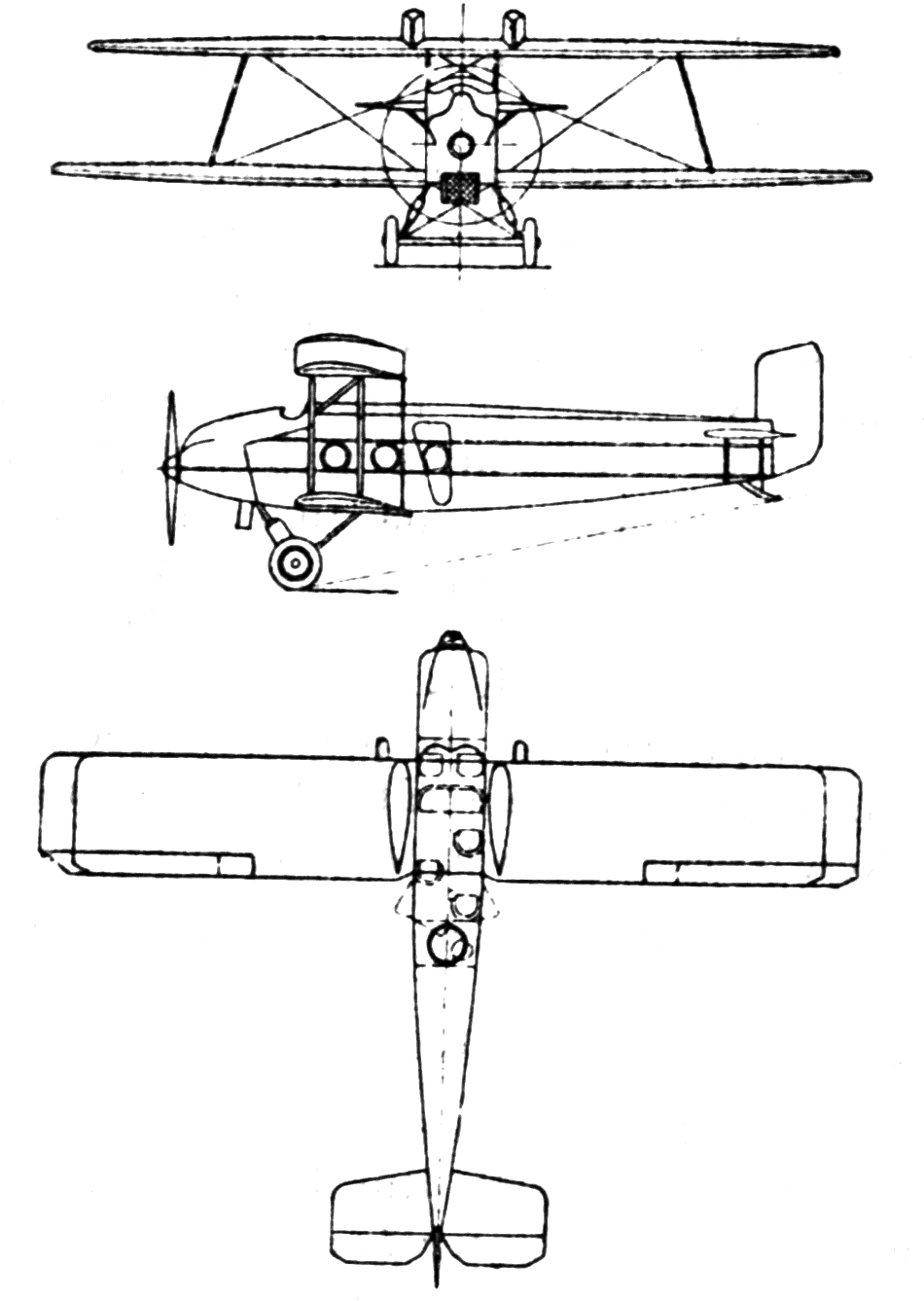 Avia BH 25 3-view drawing from Le Document aéronautique June,1926